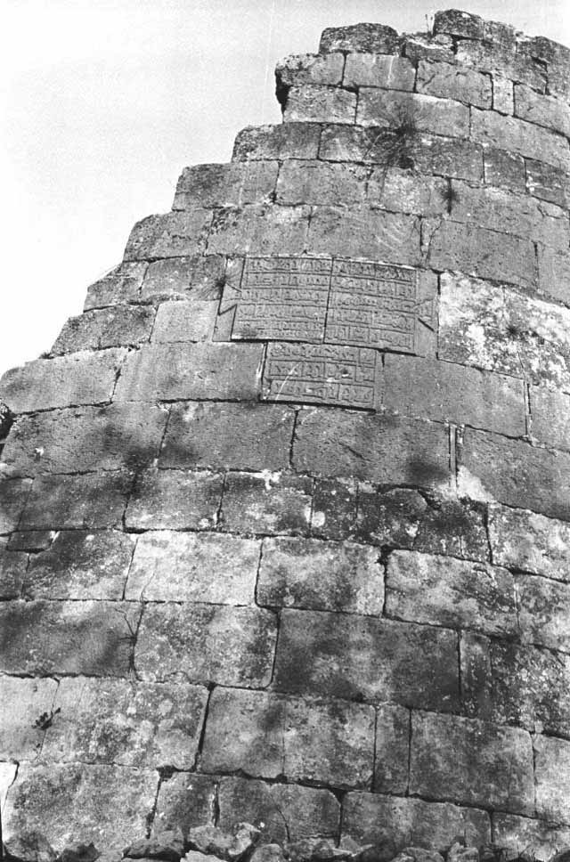 Mayafarkin 2nd E tower N. of Gate. Merwanid Sa'id 391 AH. L. H. No.2 [City Wall - detail of second east tower N of gate showing carved Arabic inscription - Merwanid Sa'id]